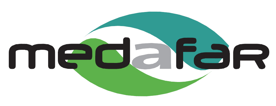 MEDAFAR Project, whose objective is to improve, through different scientific activities, the coordination processes between physicians and pharmacists working in primary health care.